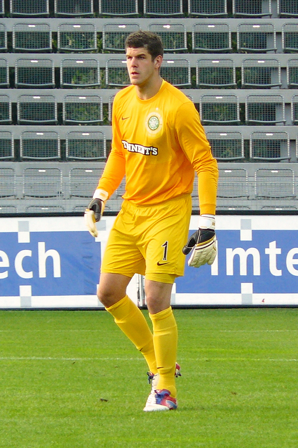 Fraser Forster, English footballer